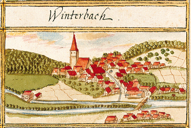 View of Winterbach from the forest register books created by Andreas Kieser